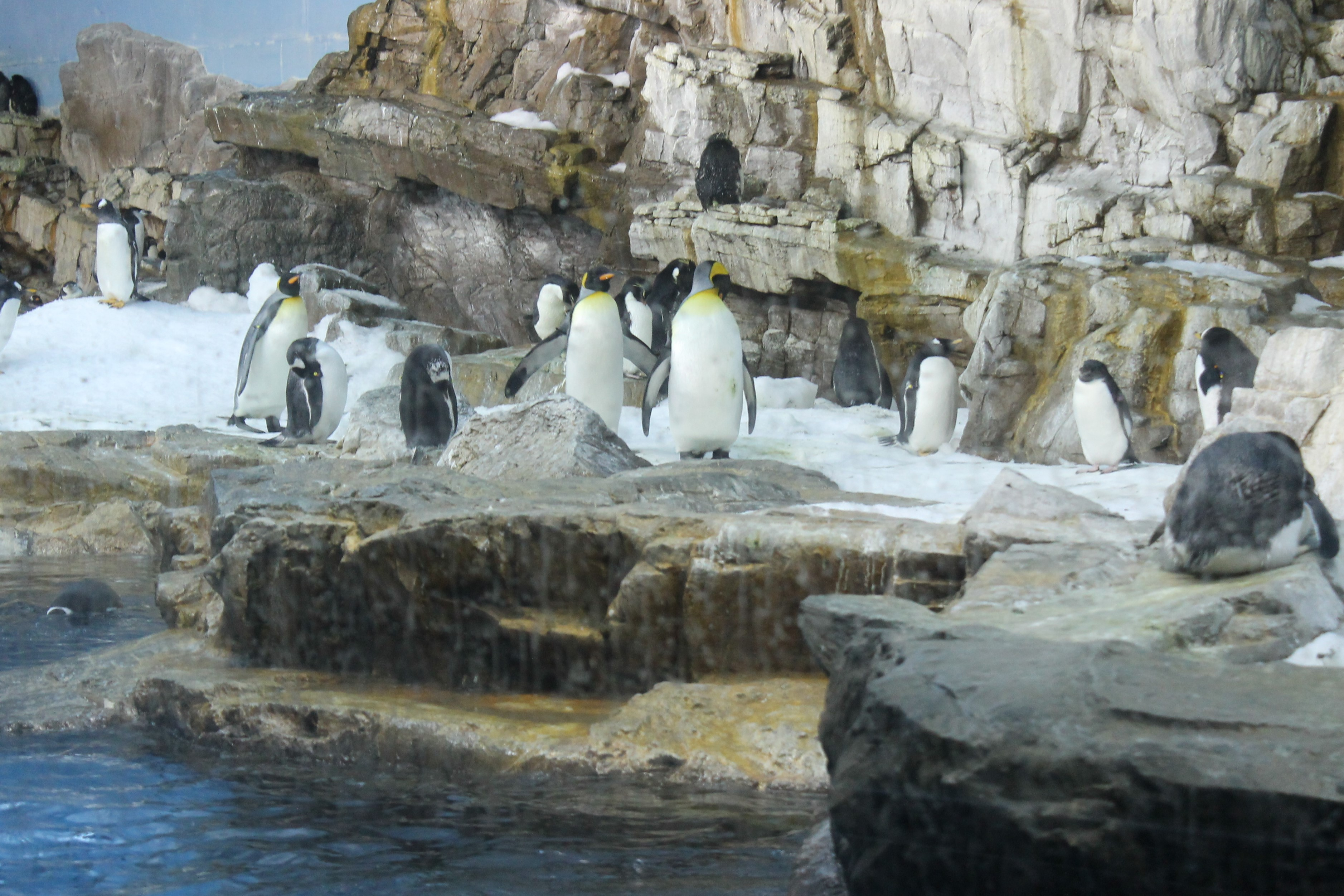 Penquin House at Sea World San Antonio, live penquins